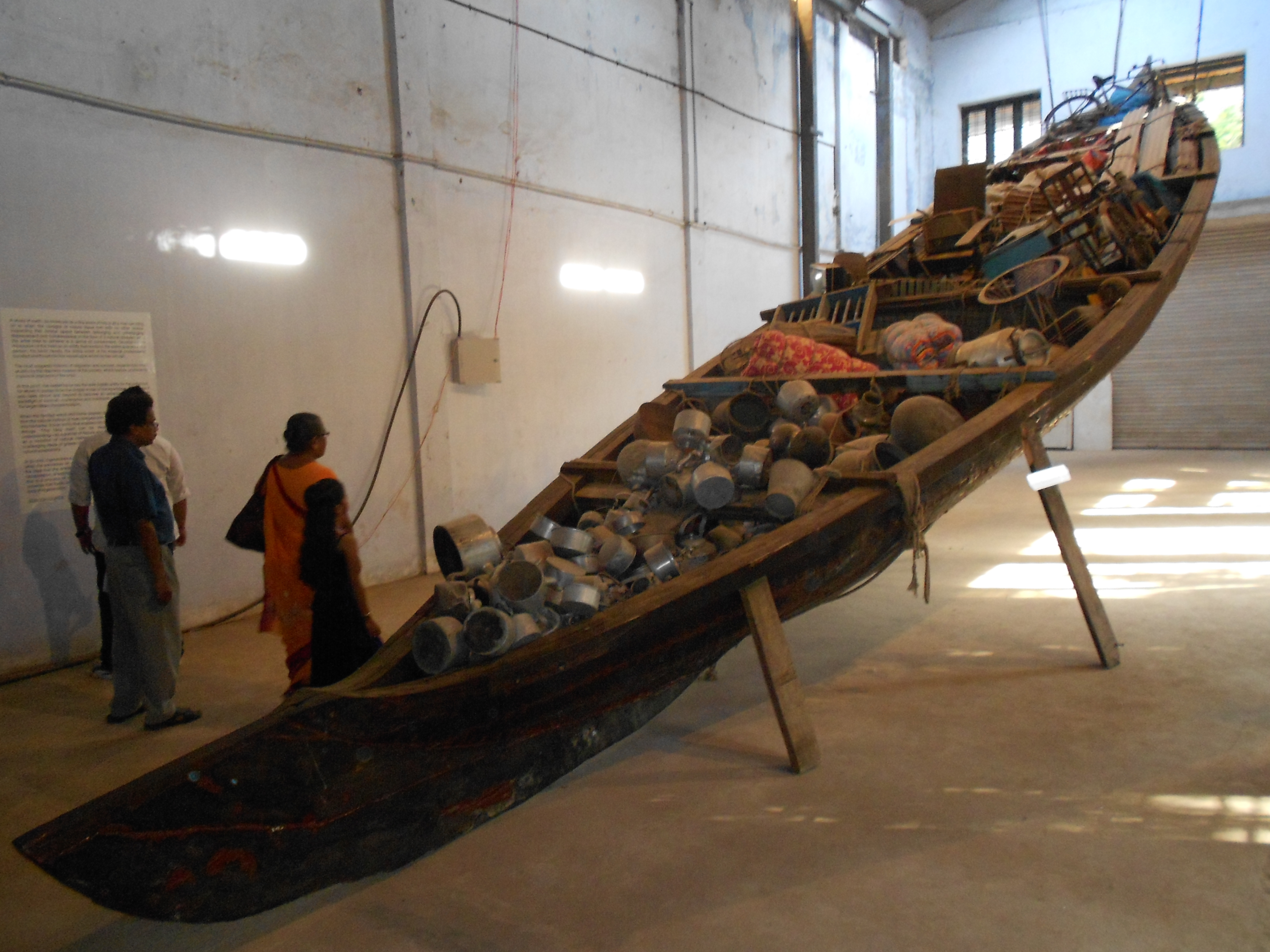 What does the vessel contain, that the river does not, Subodh gupthas Installation art at Kochi muziris binalle